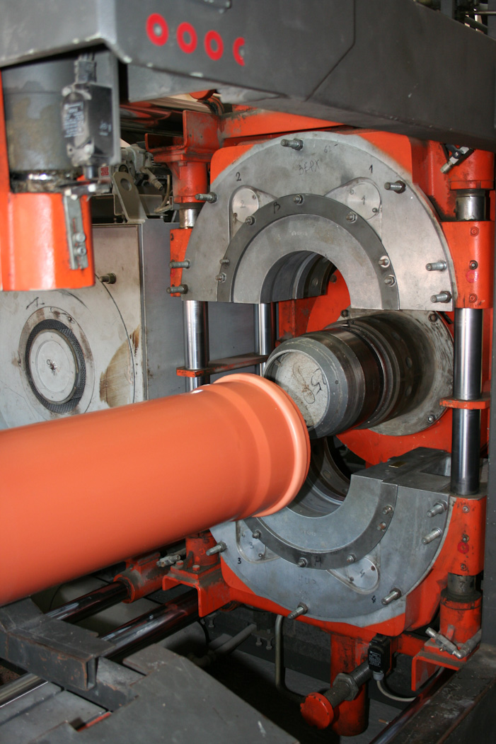 Embouchure nonpressure PVC pipe